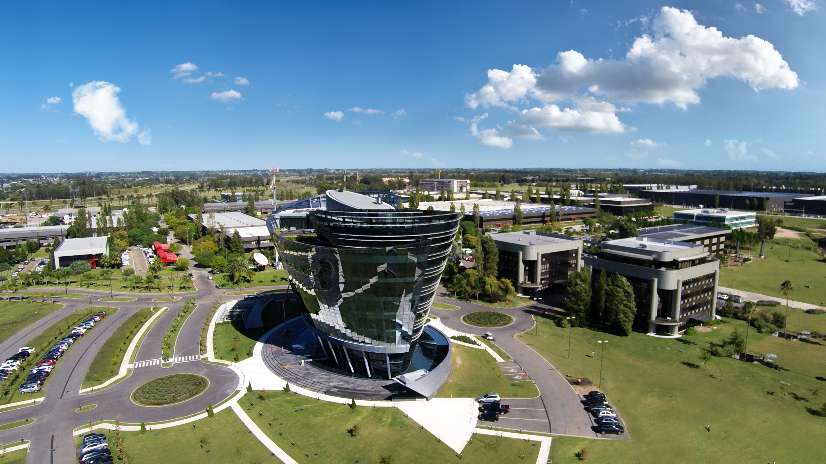 Aerial Perspective of Zonamerica